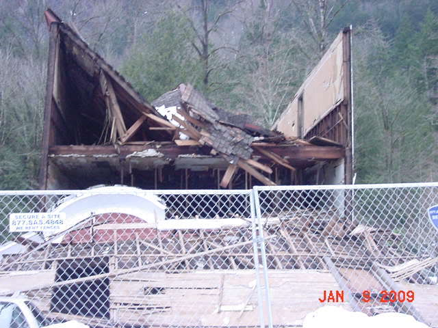 Collapse of the Red Men Hall in Index, WA January 9, 2009 due to excessive snow load.